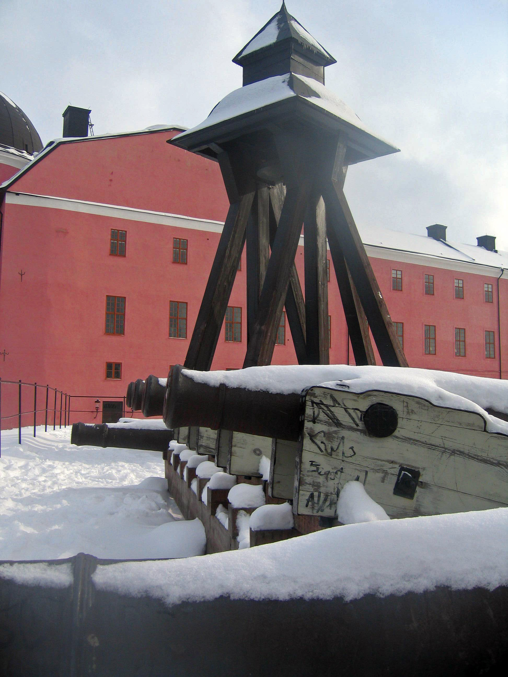 Uppsala, the Gunilla Bell with some cannons in the foreground and Uppsala Castle in the background.